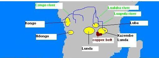 central african states & empires